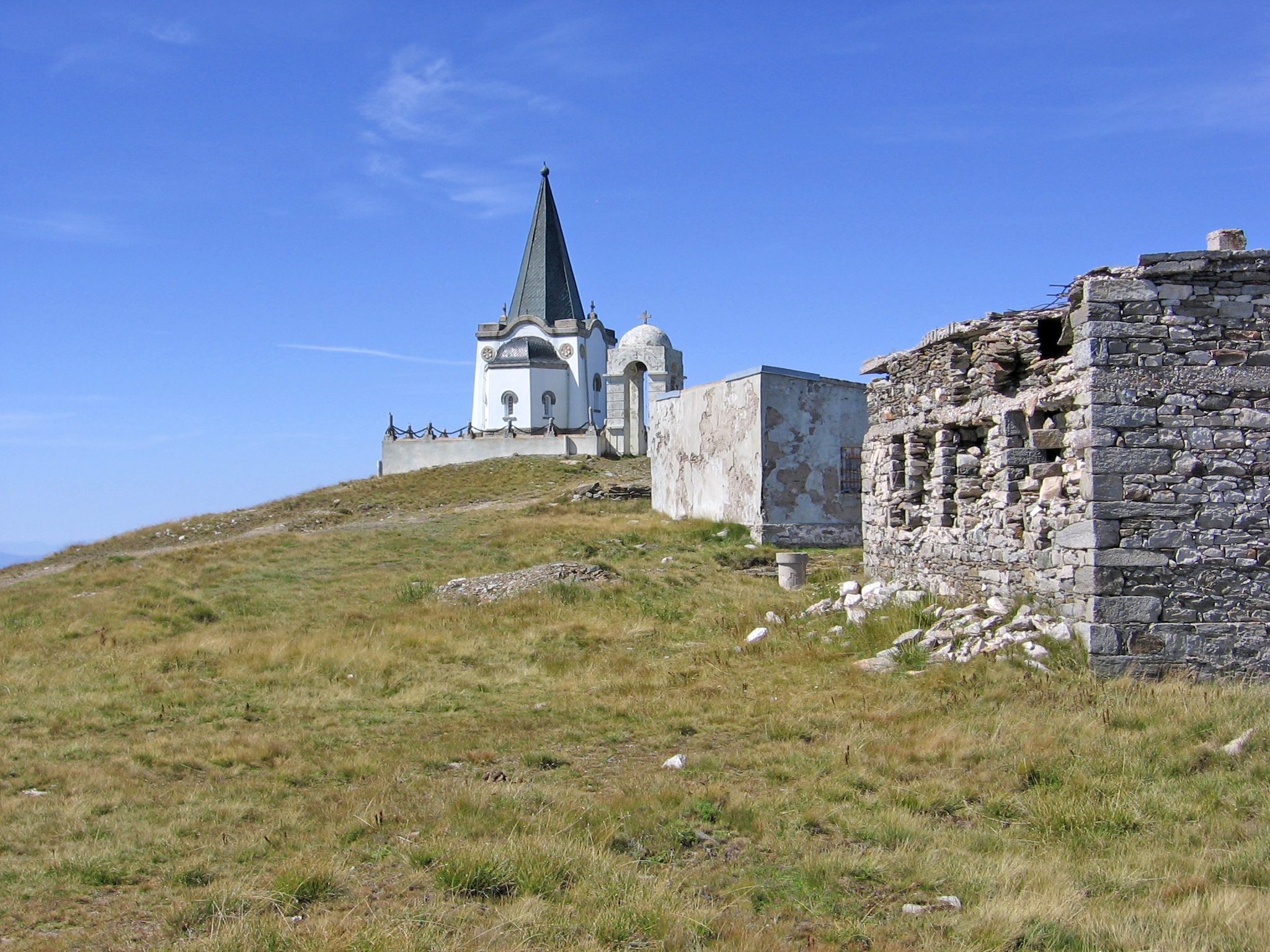 St. Elijah church - Kajmakcalan mountain - Macedonia